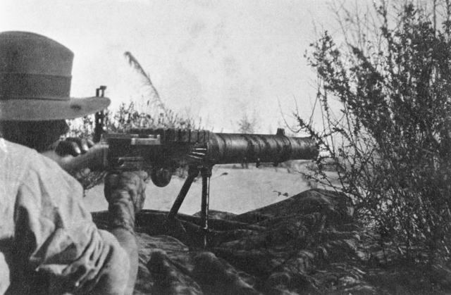 Australian War Memorial image P00812.011. An Australian soldier firing a Lewis Gun during the Battle of Magdhaba